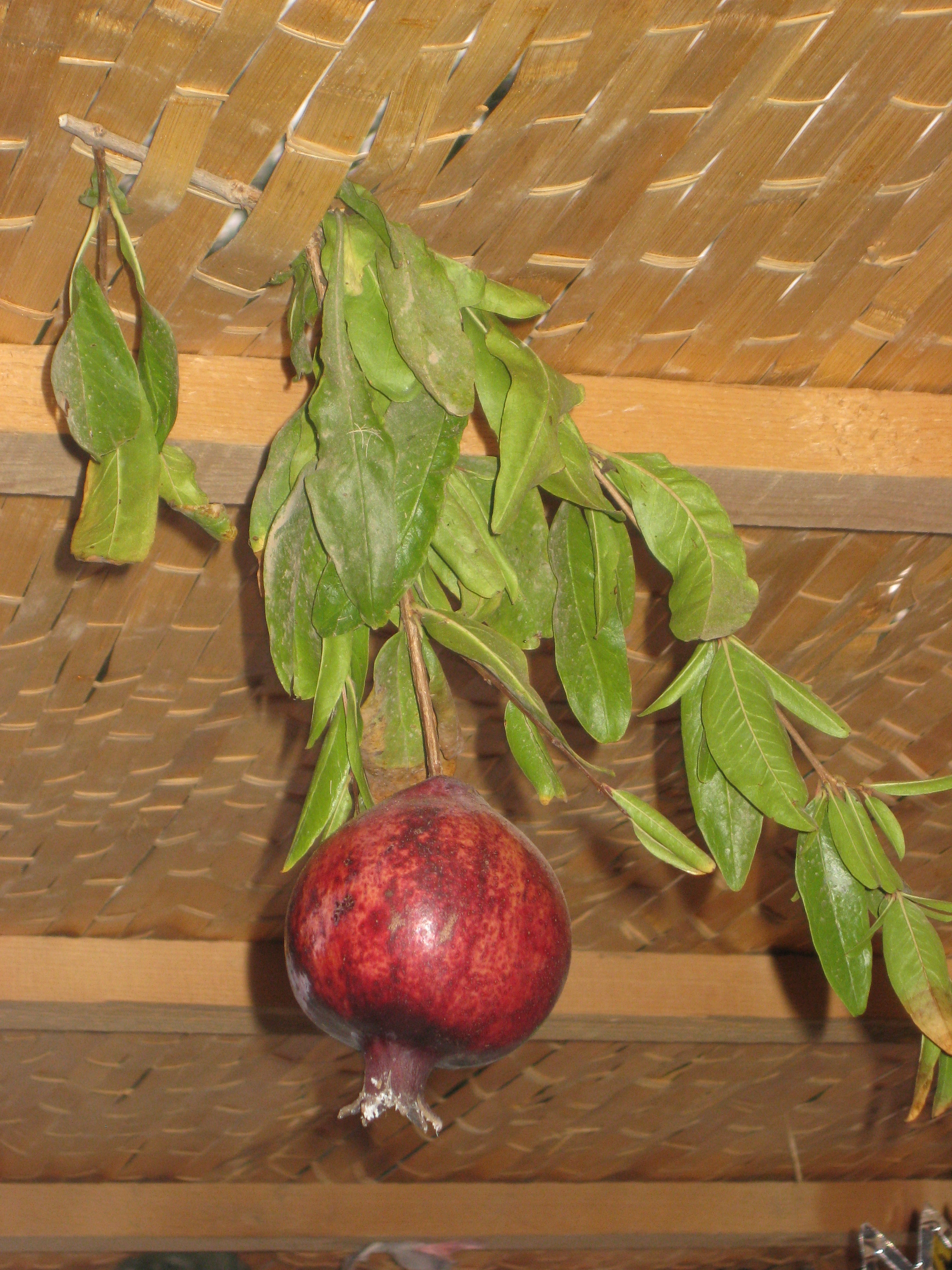 Pomegranate decorations for the sukkah